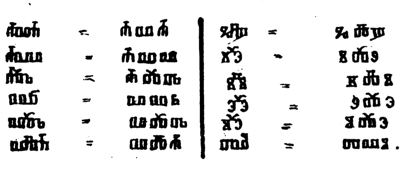 This is a scan of a table from Ivan Berčić's 1860 Bukvar. It has been modified for use on Wikisource using GIMP.